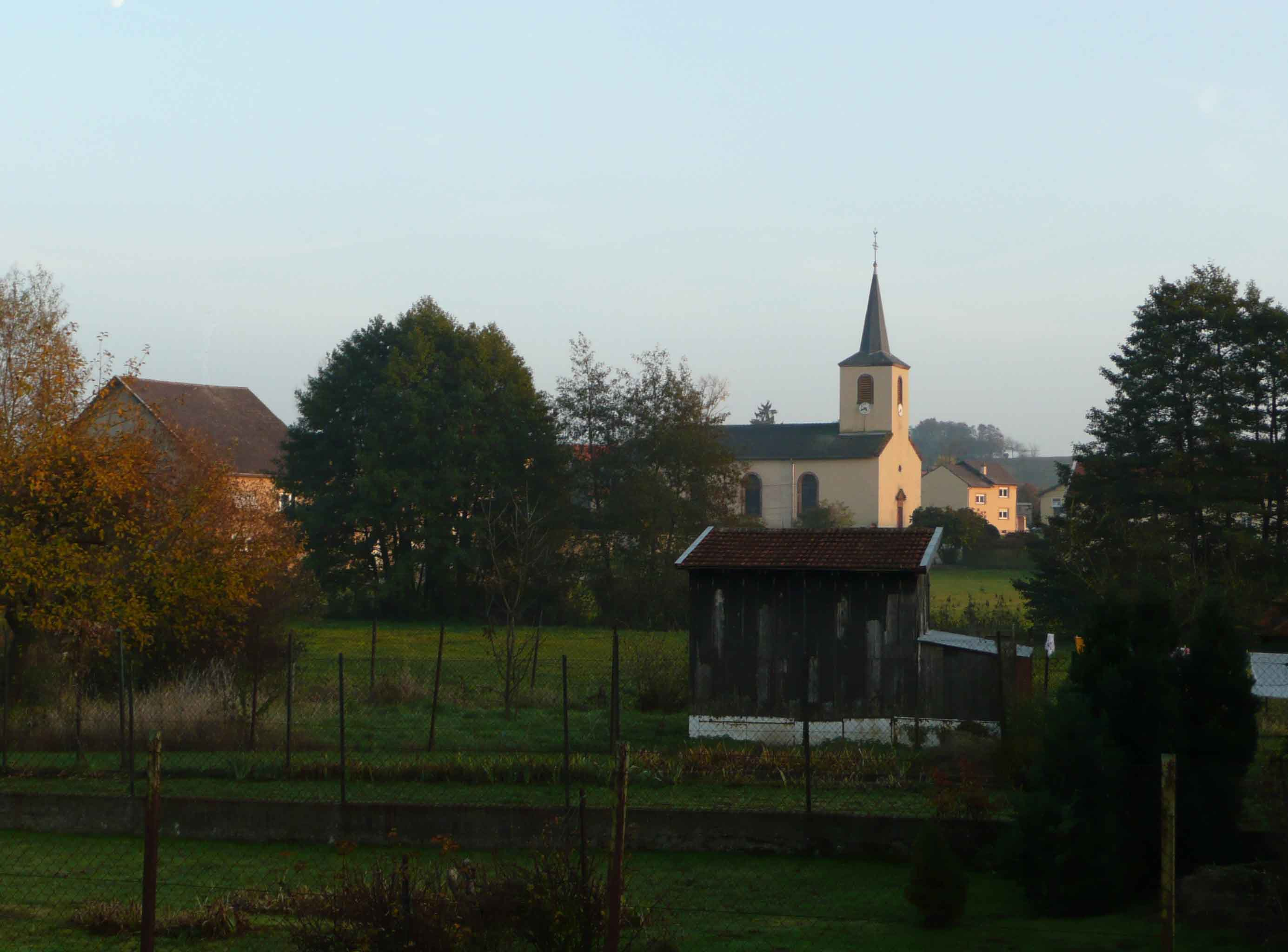 General view of Torcheville.